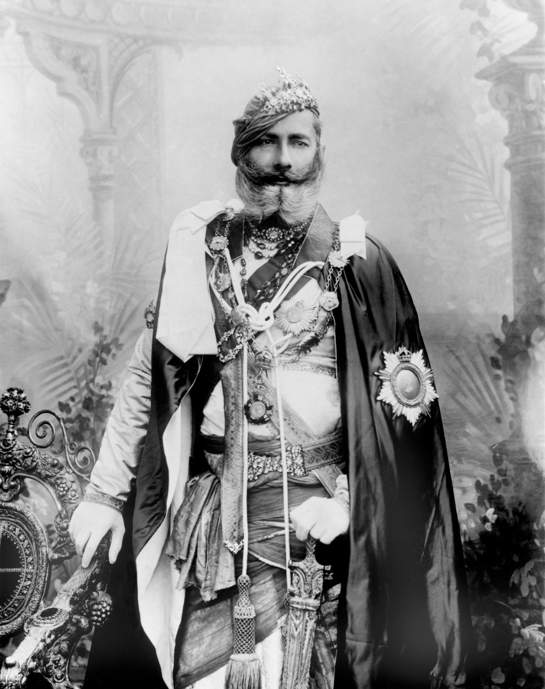 Maharaja Pratap Singh, ruler of Orchha in central India, leaning on an elaborate throne chair, in a professional photographer's studio against a backdrop of European-style architecture